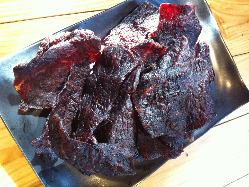 Hanu-yukpo (dried Hanu beef)